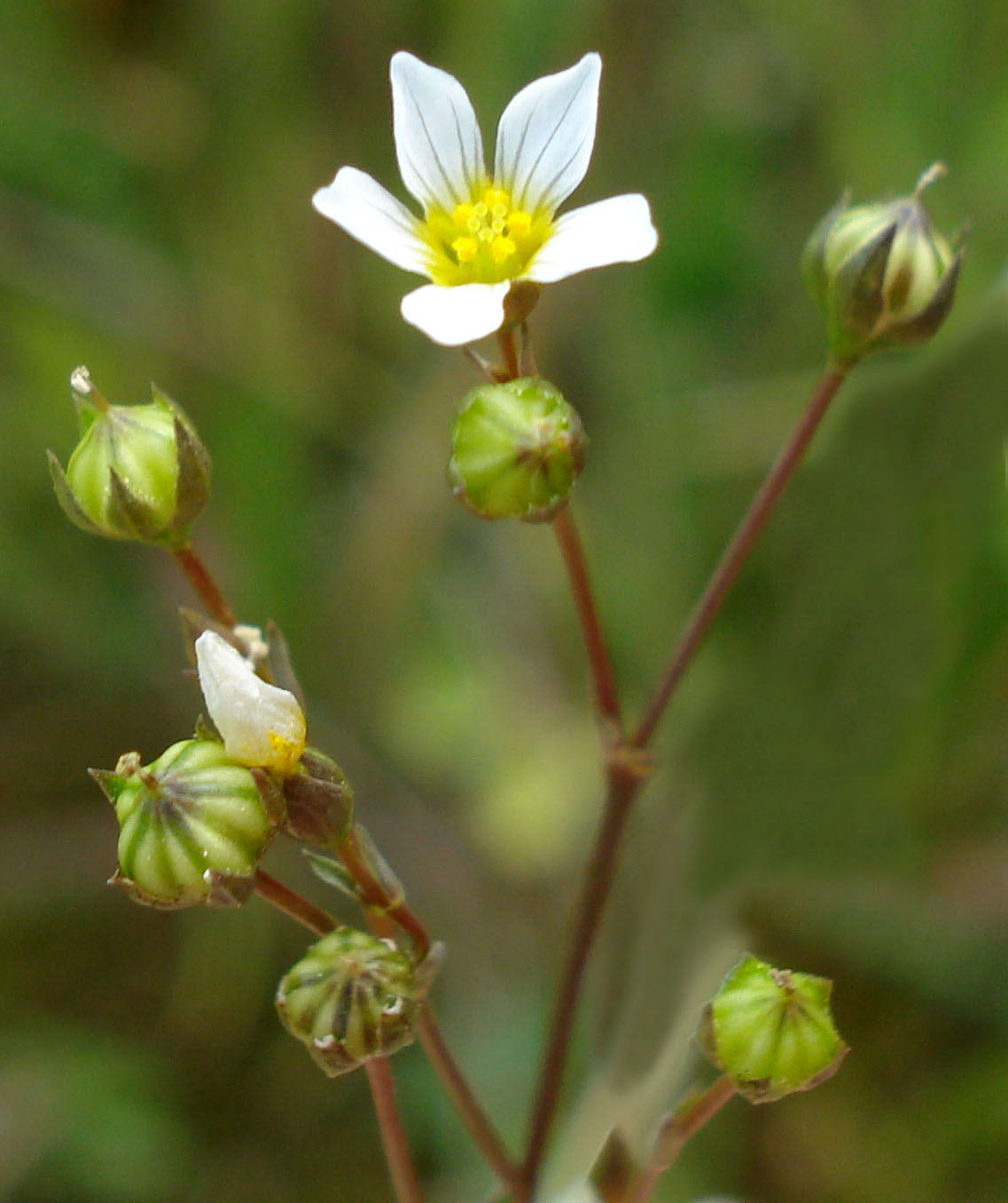 Linum cartharticum (Unterfranken, Germany)